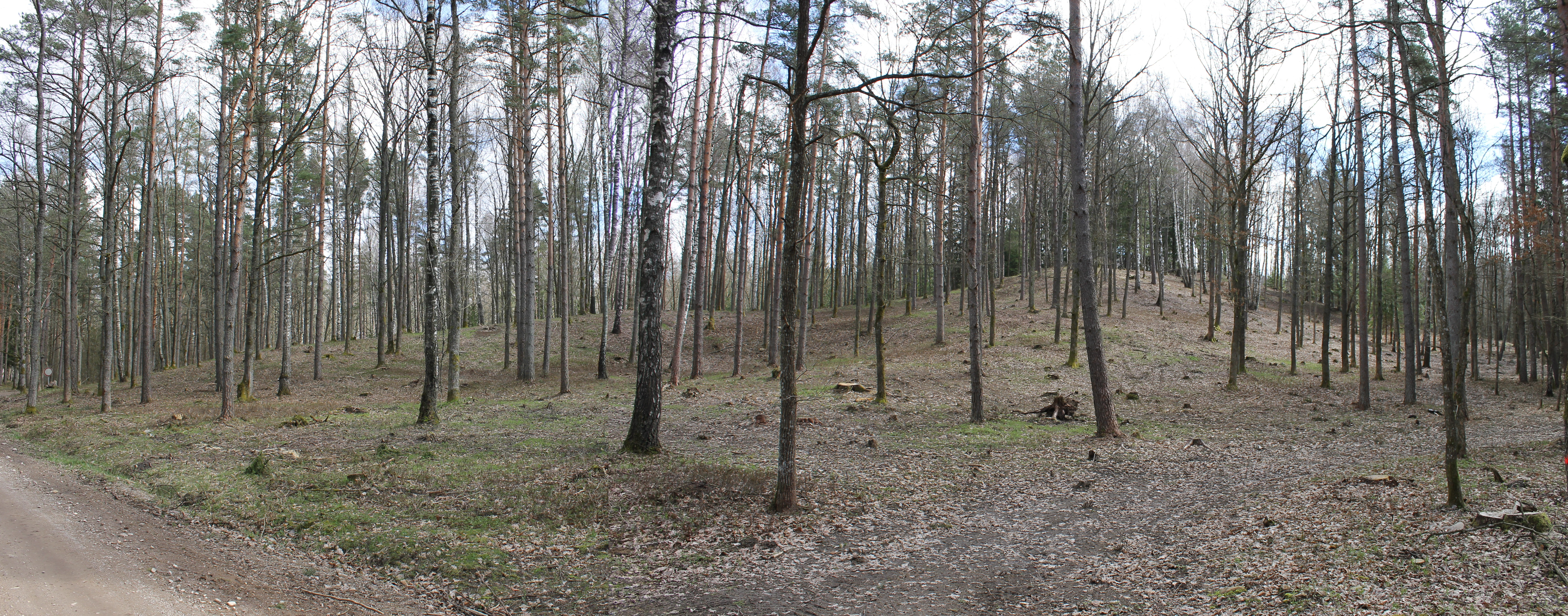 Dauginčiai hillfort, Kretinga district, LithuaniaLietuvių: Dauginčių II piliakalnis, Kretingos rajonas, Lietuva